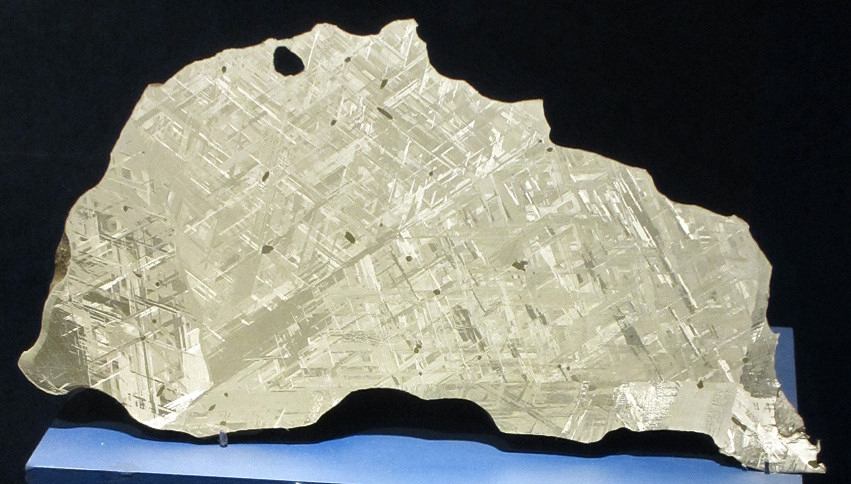 Gibeon meteorite, National Museum of Natural History, Washington D.C.